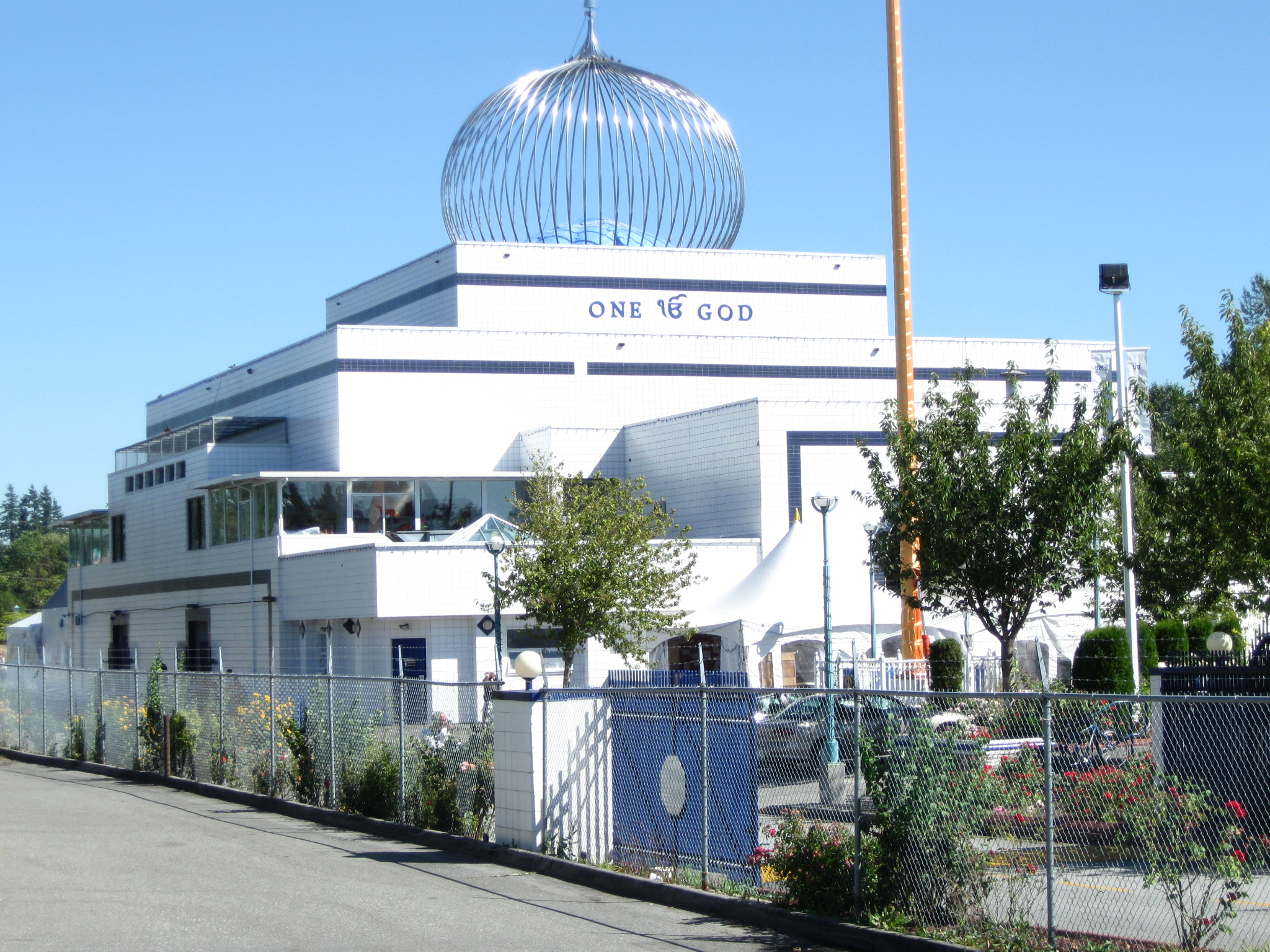 The Guru Nanak Sikh Gurdwara for Delta-Surrey in BC, Canada. Its address is 7050 Scott Road in Surrey, BC, Canada. The writing near the top of the temple's Dome says 'One God.'